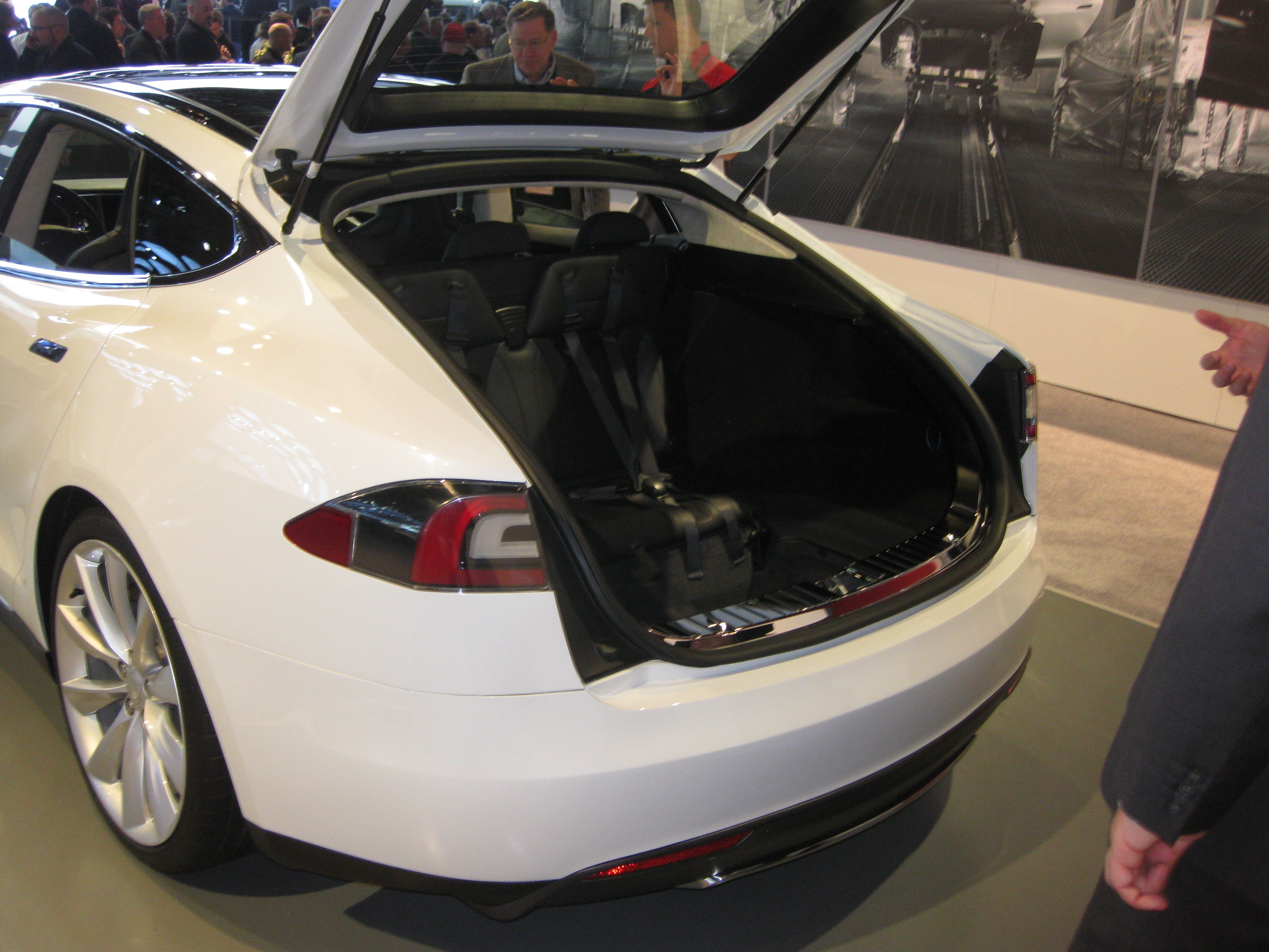 For more info and images please check